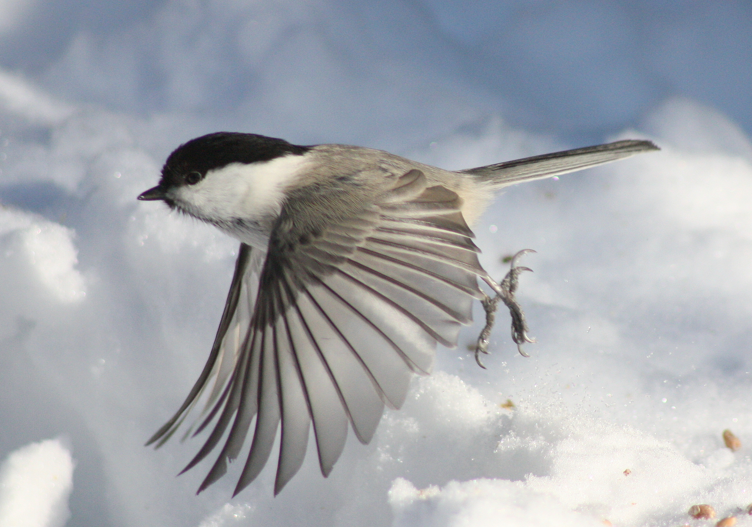 Willow tit (Poecile montanus) in flight in Kittilä, Finland.